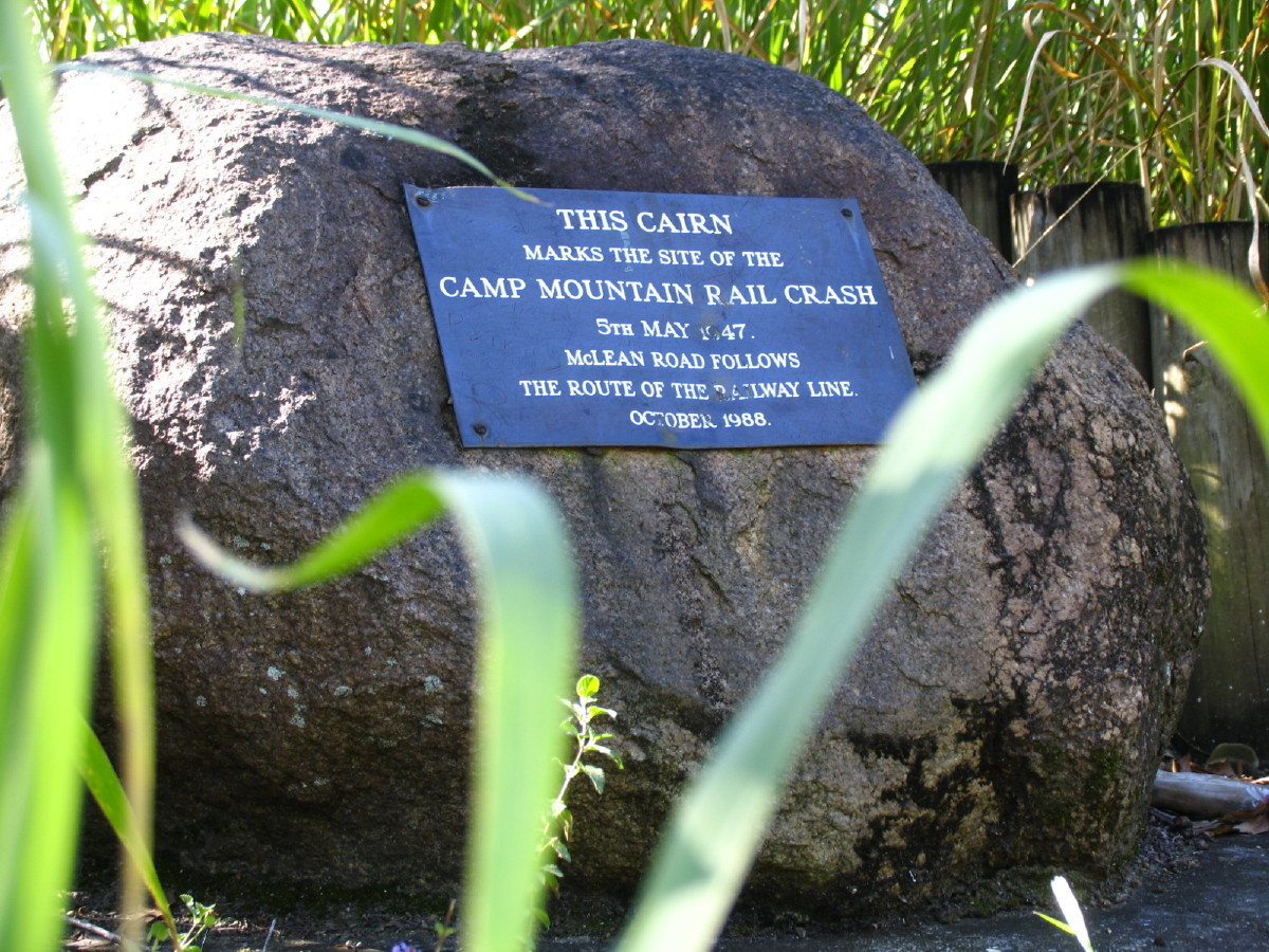 The memorial cairn to commemorate the Camp Mountain train disaster, northwest of Brisbane, Australia. The plaque on the large stone reads: "This cairn marks the site of the Camp Mountain Rail Crash 5th May 1947. McLean Road follows the route of the railway line. October 1988."